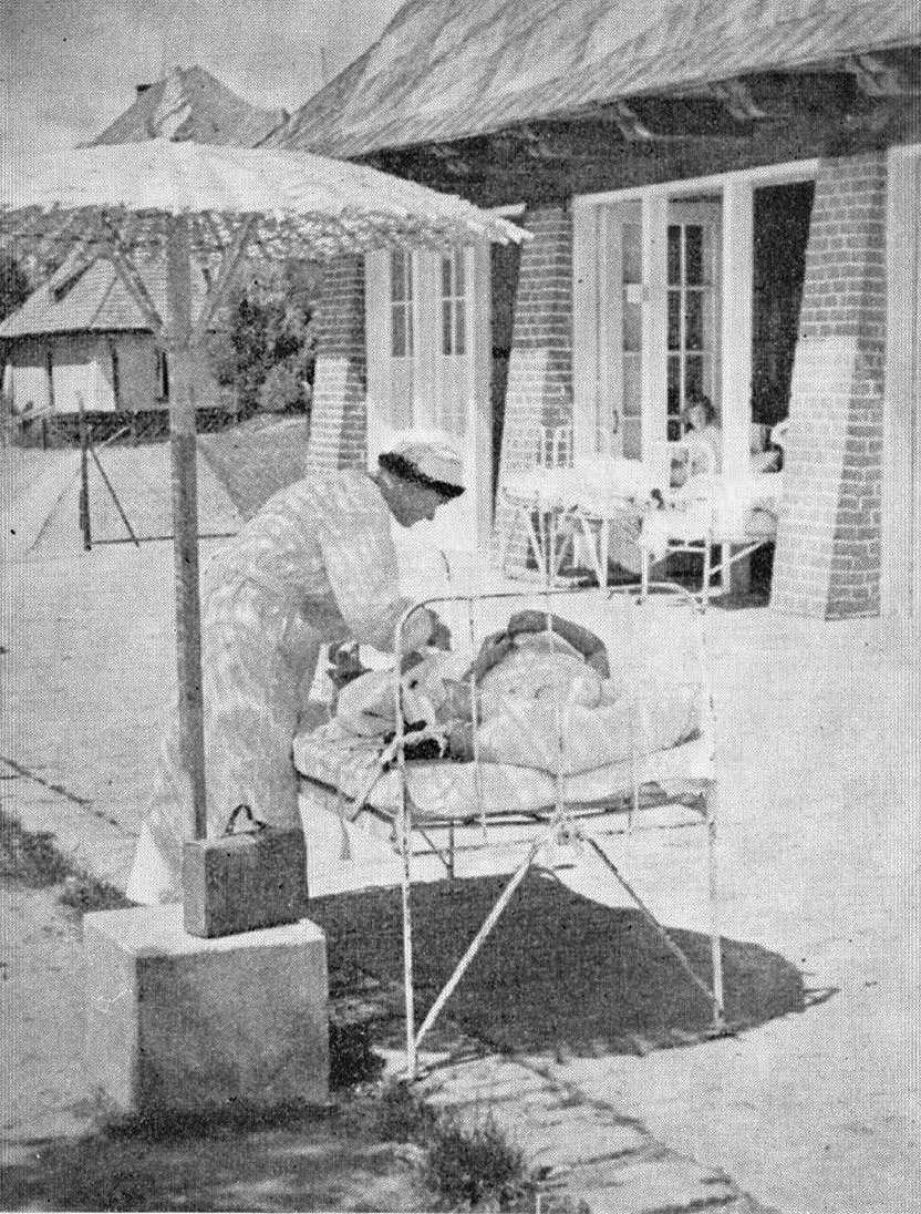 Children's sanatorium in Busko-Zdrój "Górka" (ca1922)